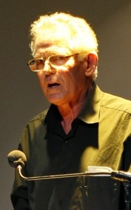 Bill Berkson; poet, critic, teacher, editor, curator, and author of sixteen books and pamphlets of poetry; speaking at Beyond Baroque Literary Arts Center, Los Angeles.